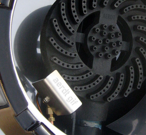 Direct flame of a burner on a chinese stove